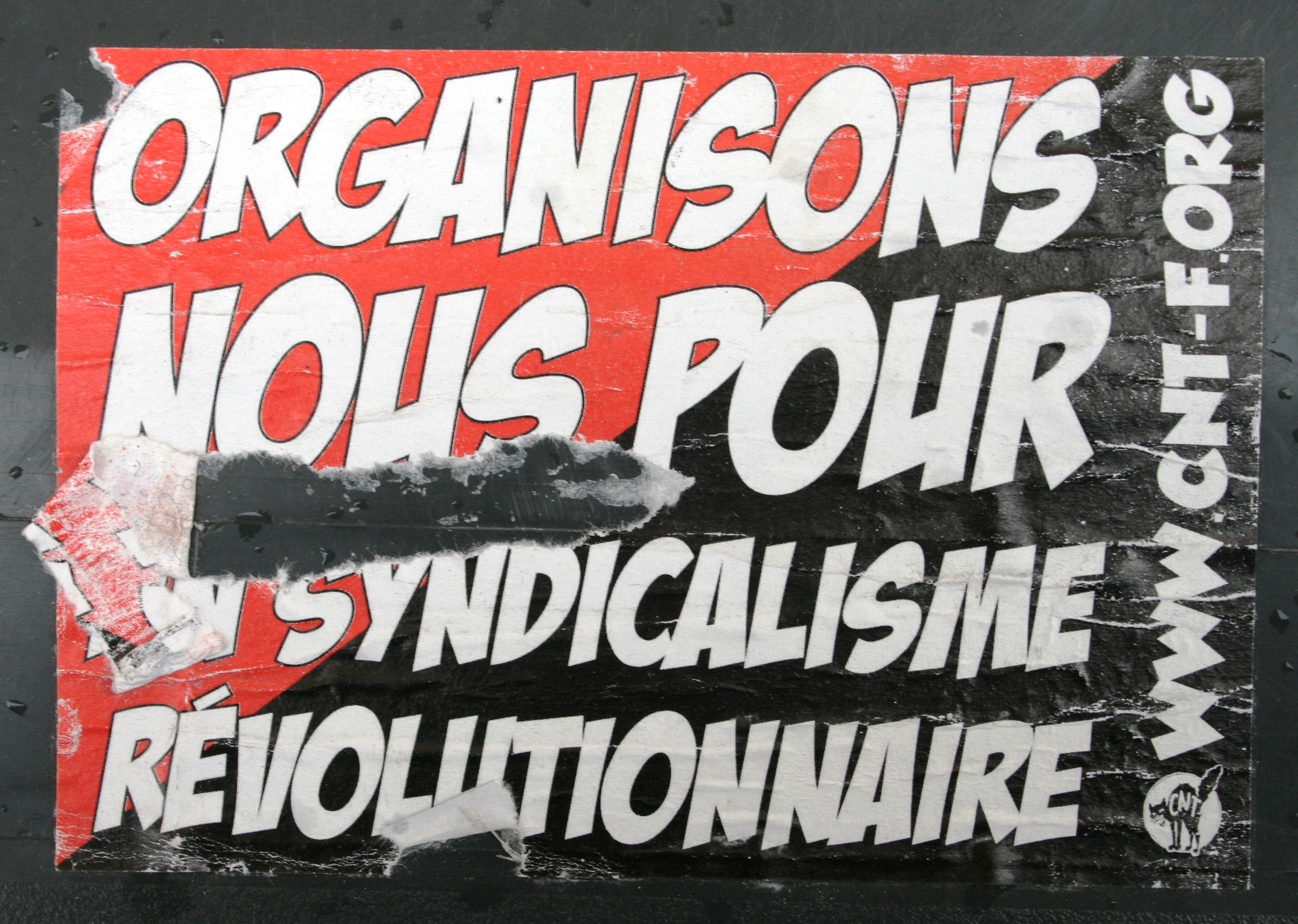 Sticker of the Confédération Nationale du Travail, in Bordeaux, France : "We need to organize a revolutionary unionism".